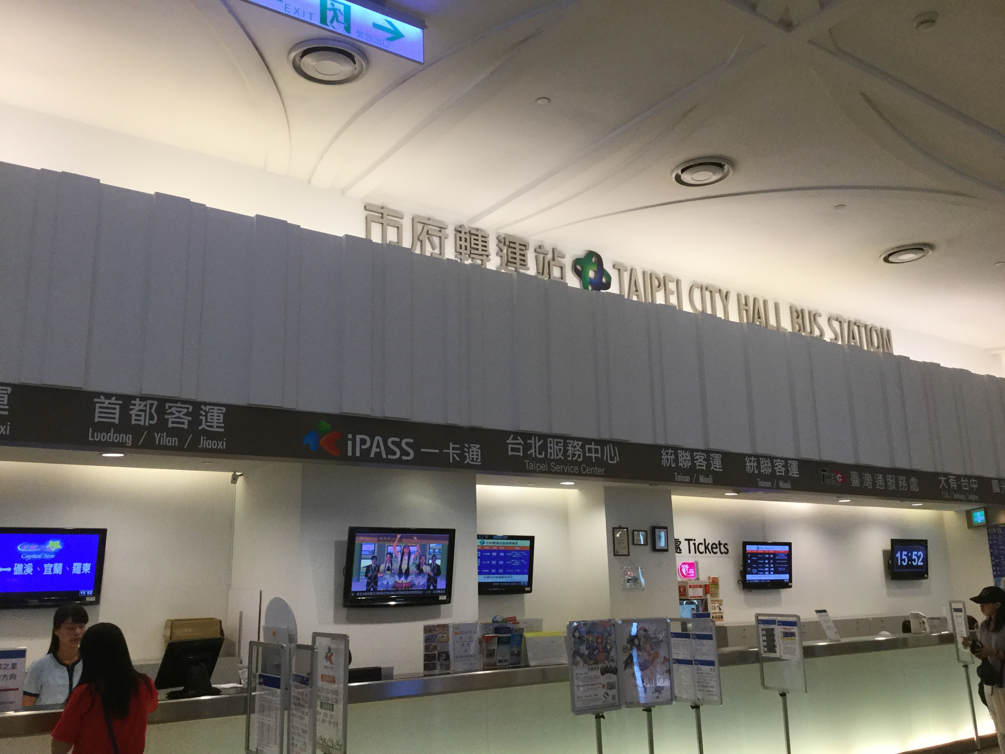 iPASS Taipei Service Center in Taipei City Hall Bus Station 1F.